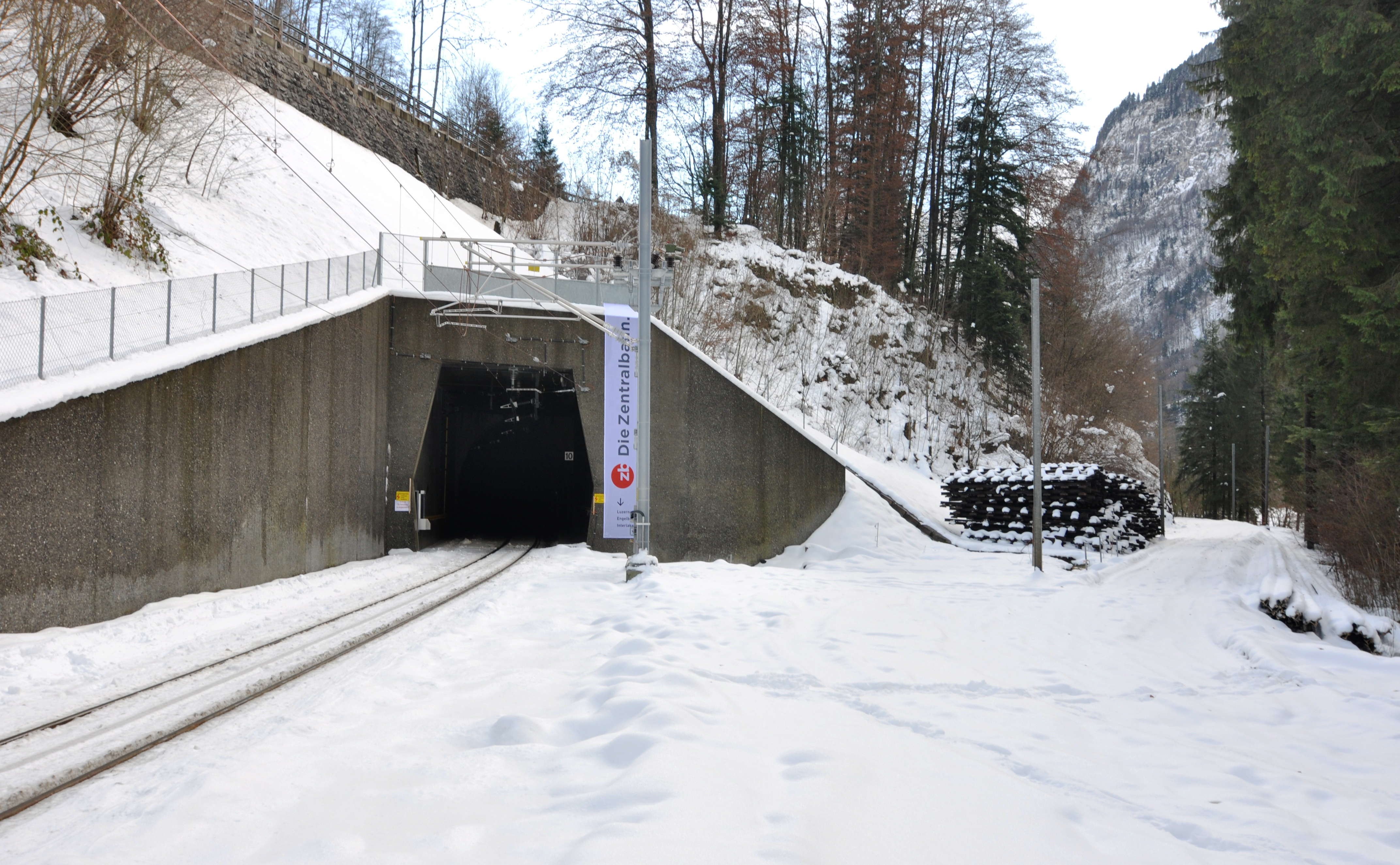 Tunnel portall of the Zentralbahn in the lower Aa gorge. On the right handside the old, snow-covered trail.